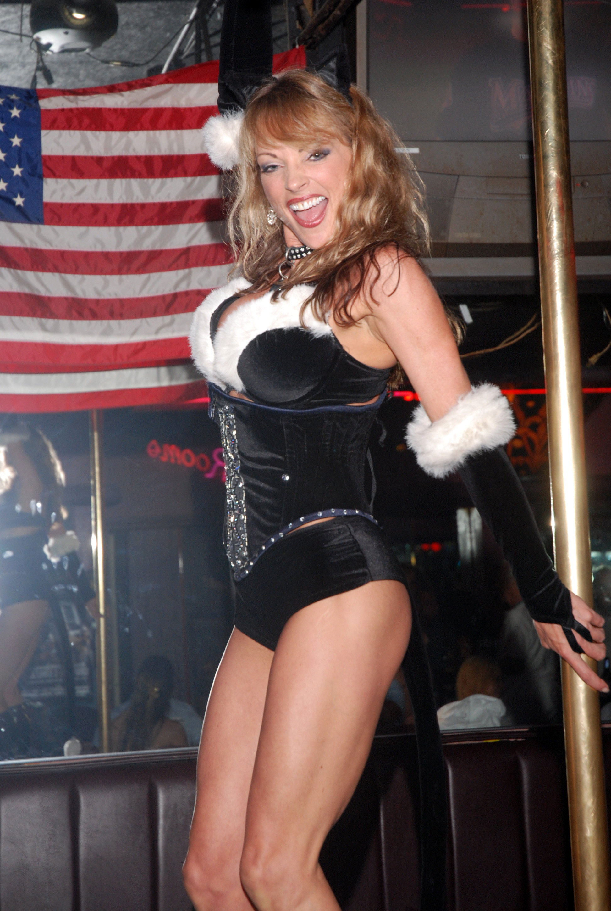 American actress Shayla LaVeaux